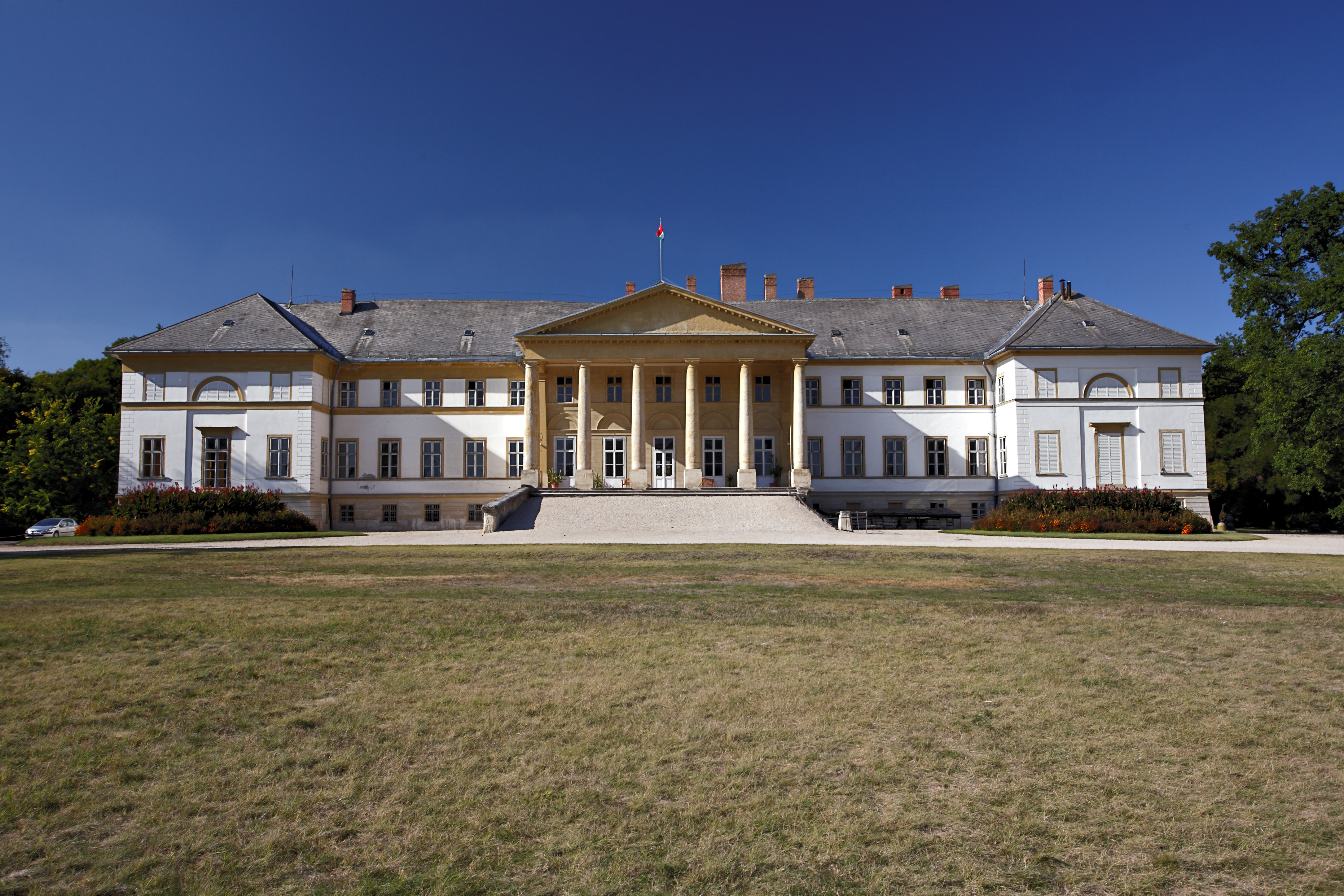 Festetics (Festetich) Palace in Dég, Fejér county, Hungary. Built 1810 to 1815 in neoclassical style by architect Mihály Pollack.